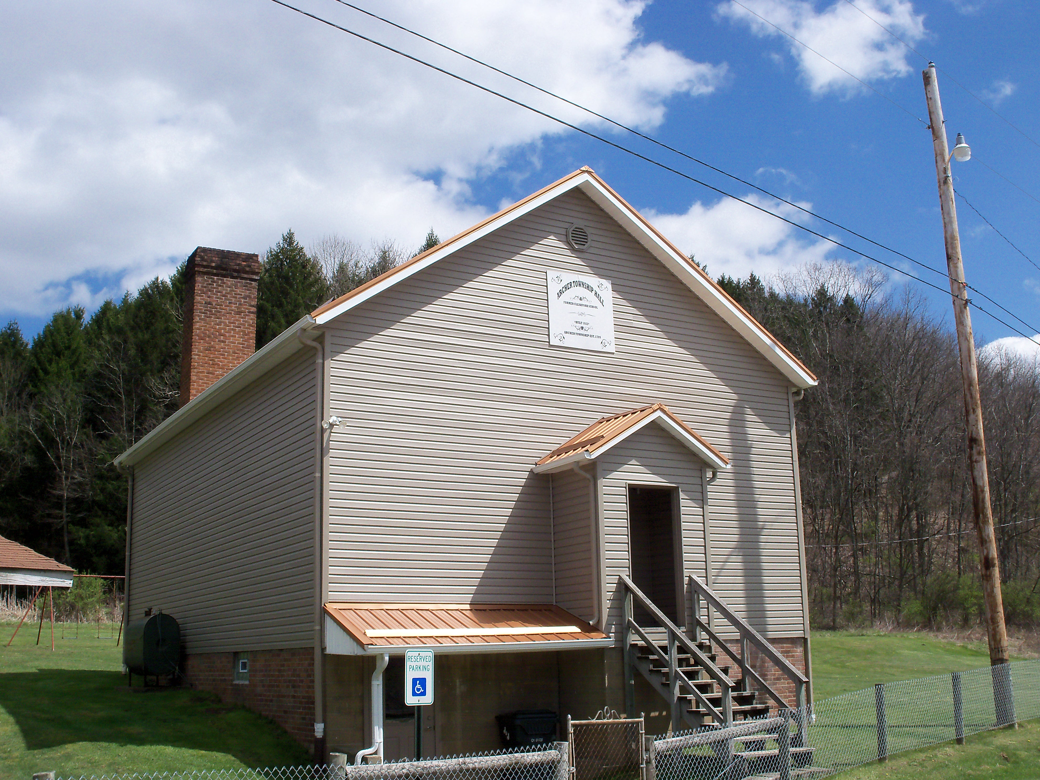 Town hall and former school in Archer Township, Harrison County, Ohio. Plaque on wall reads "Archer Township Hall, former Clearfork School, built 1922, Archer Township est 1799"